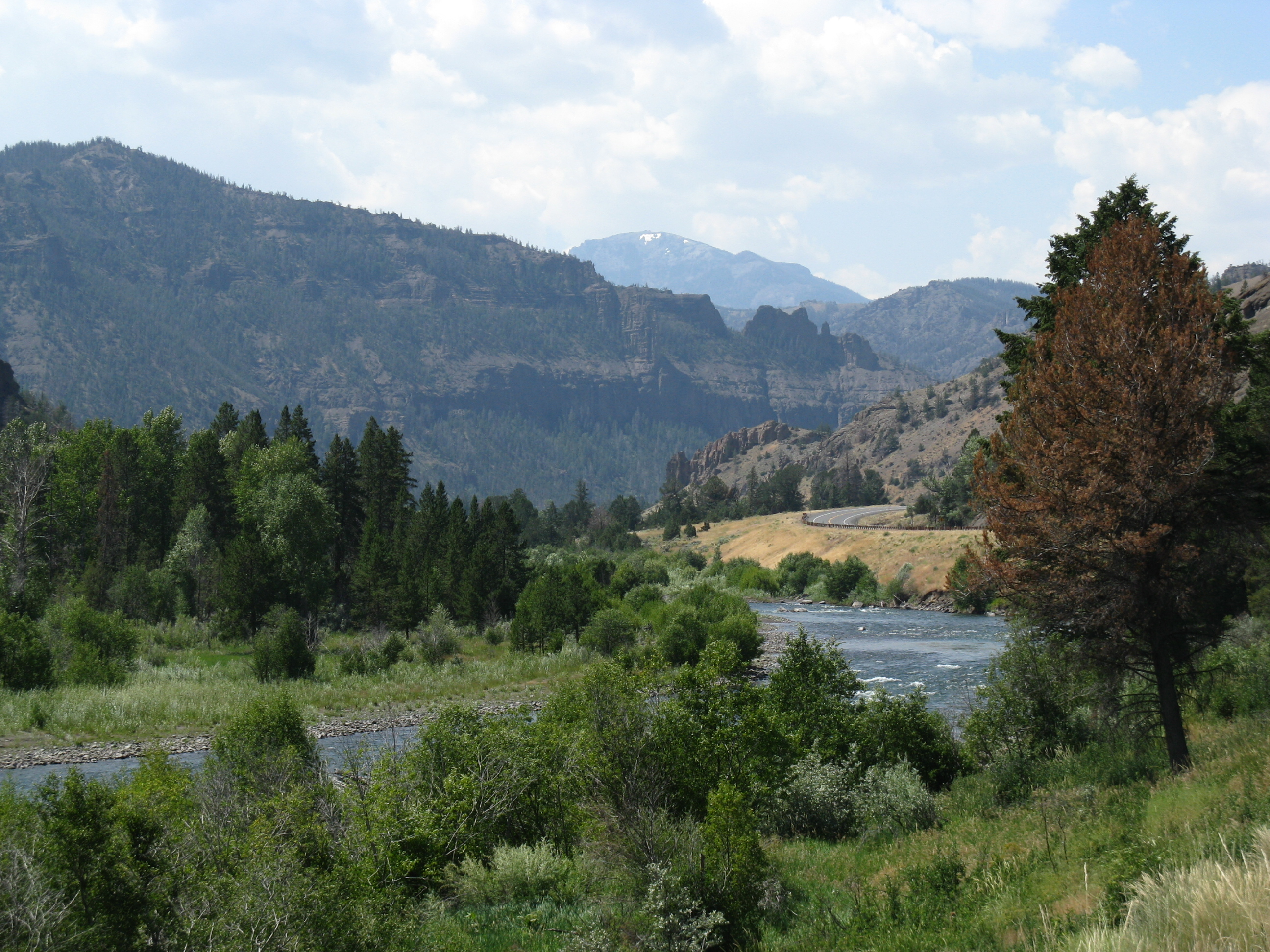 The Shoshone River between Cody and Yellowstone NP